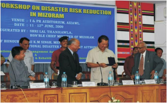 Workshop on Disaster Risk Reduction in Mizoram